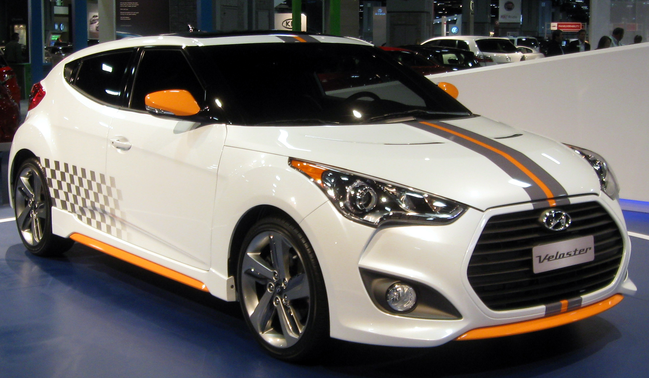 2013 Hyundai Veloster Turbo photographed in Washington, D.C., USA.